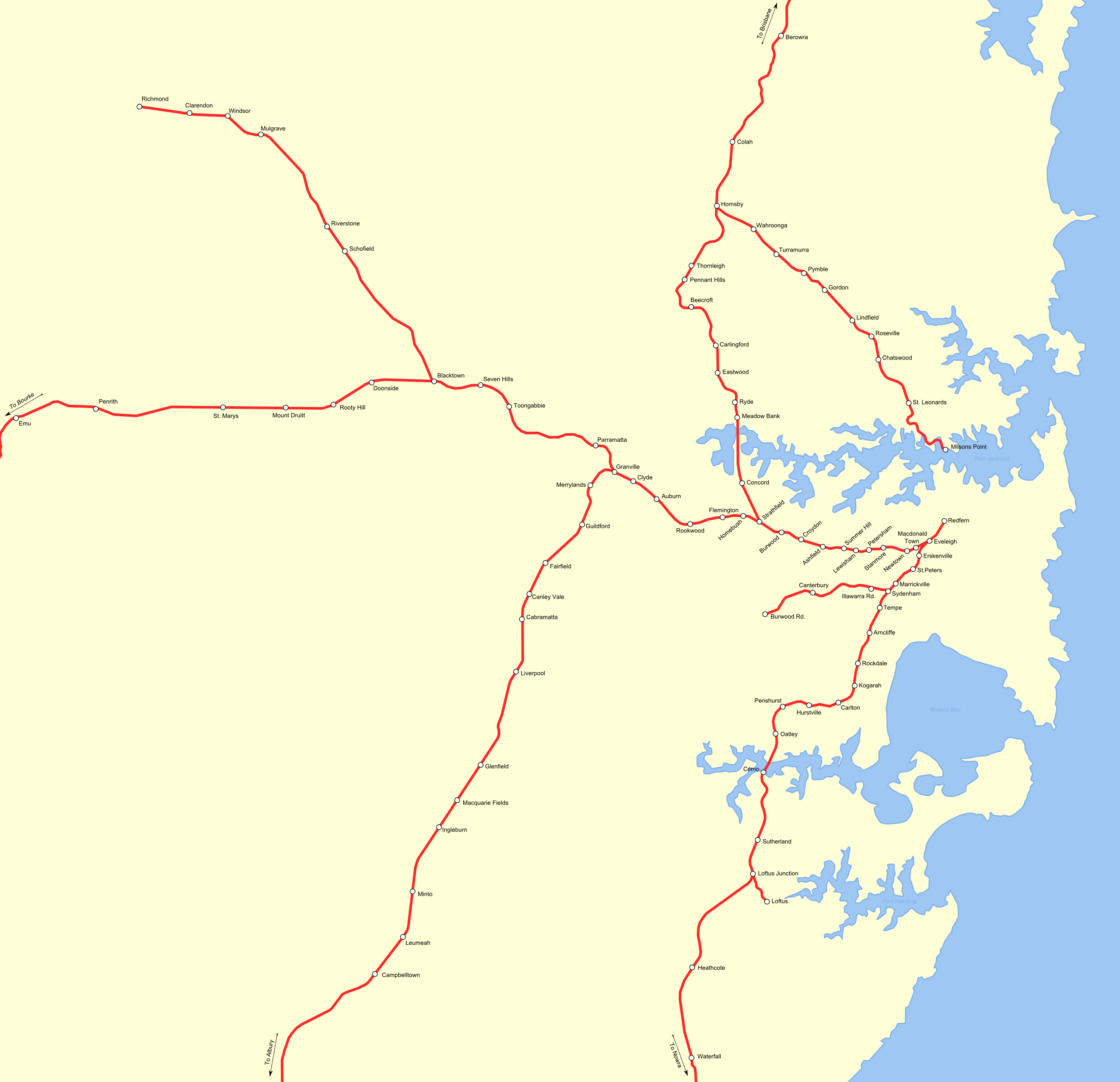 Sydney railway system in 1894, as depicted on old 1894 map of Sydney here. (which had fallen in the public domain due to age) This is before the harbour bridge linked the north shore line with the lines in sydney city; before the city circle, bankstown and east hills lines; and when central was called Redfern.